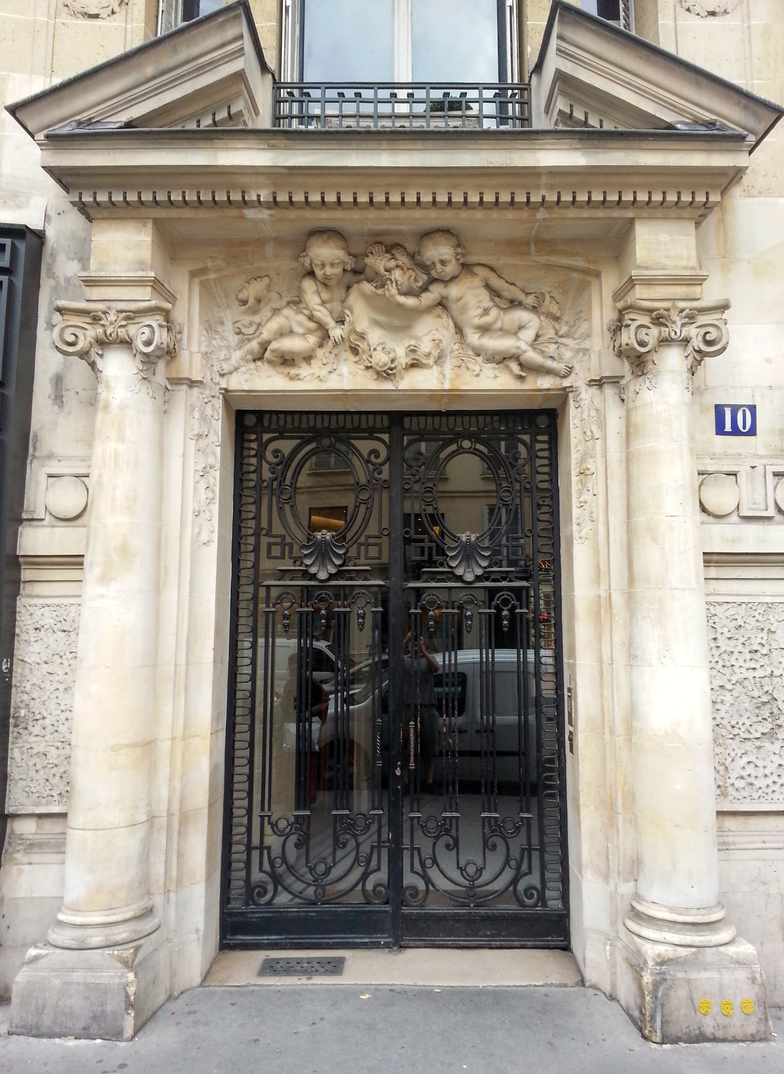 Porte du 10 rue de Sèvres à Paris